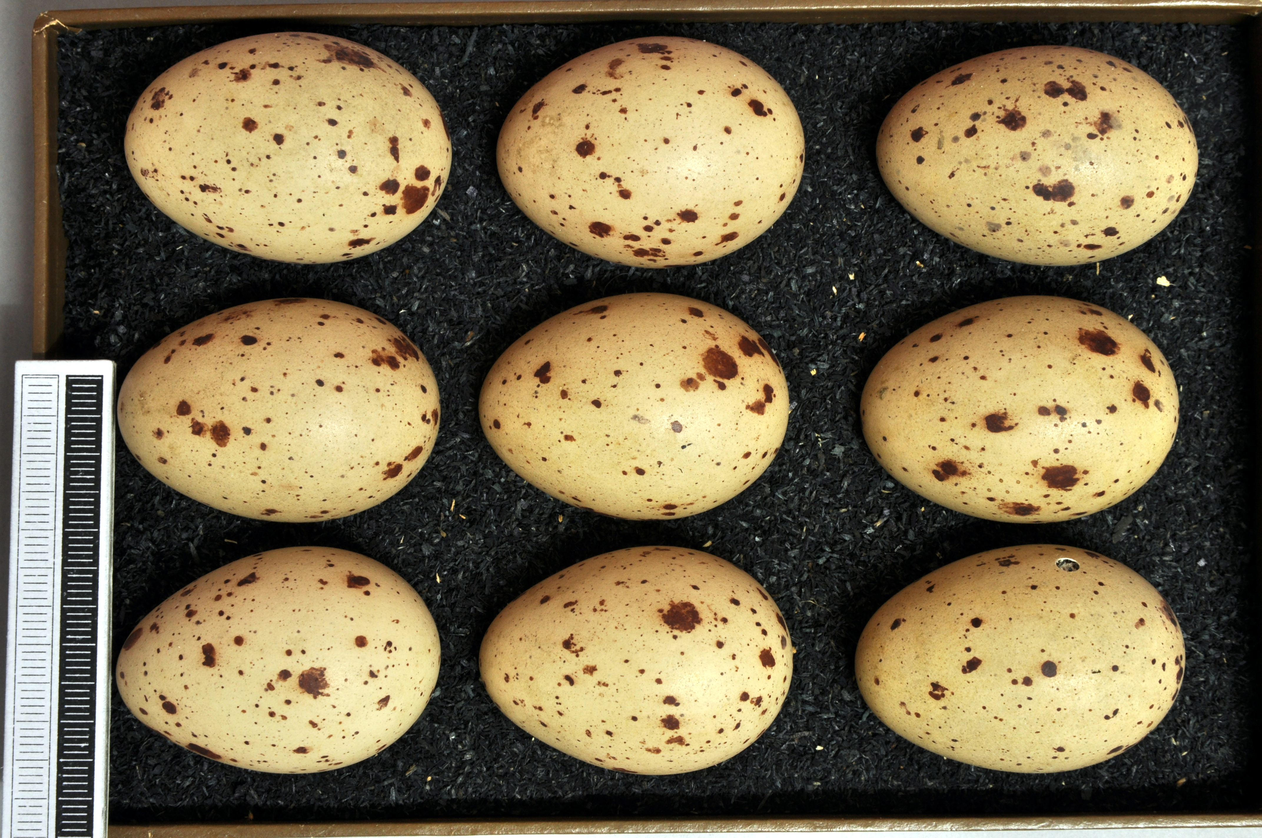 Common moorhen Gallinula chloropus , egg, Coll. Museum Wiesbaden